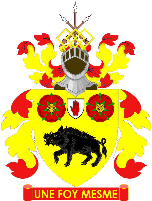 The armorial achievement of Sir Richard Gilpin, Baronet